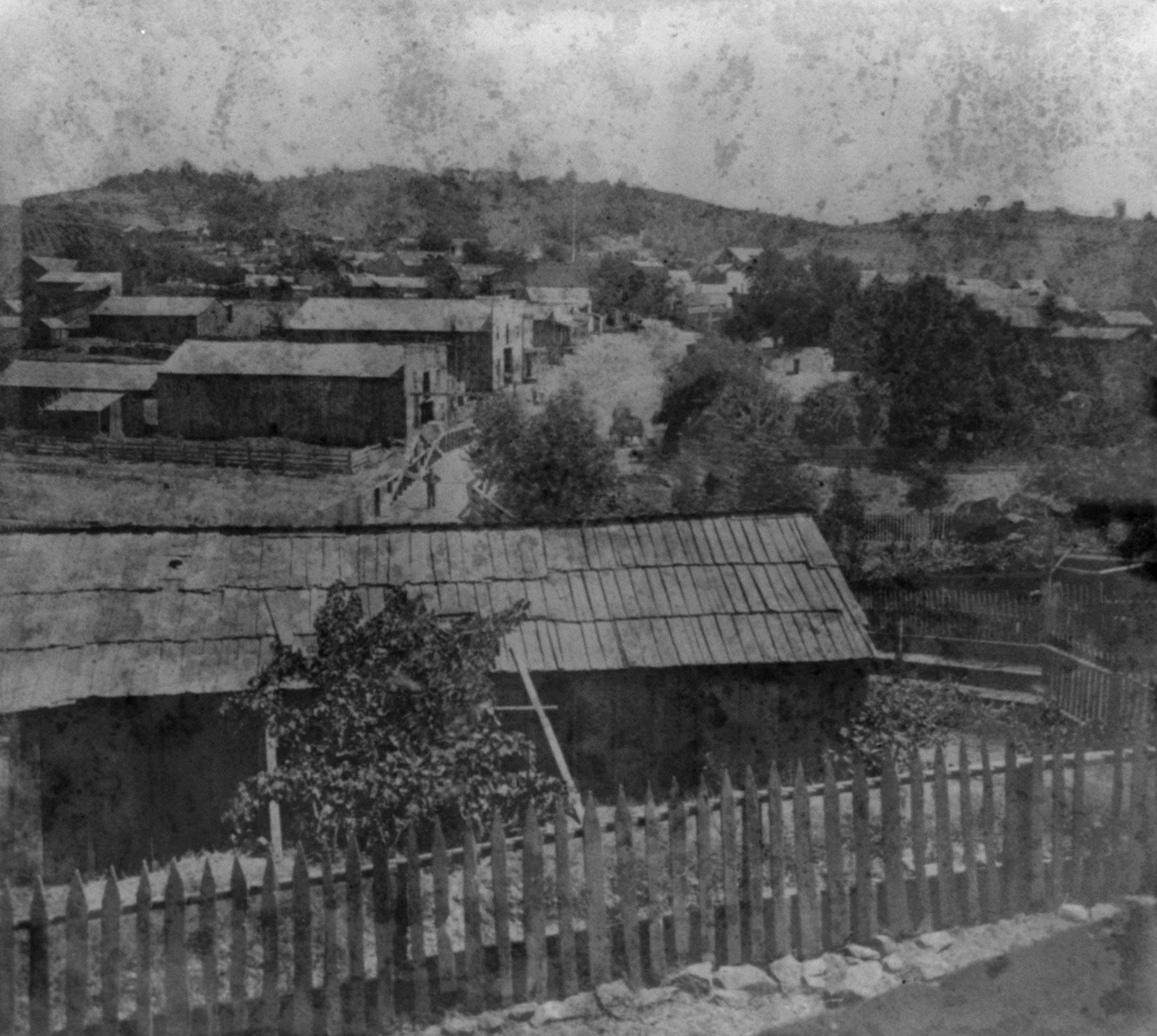 "Main Street, 1866. Source: Library of Congress, Prints & Photographs Division, Lawrence & Houseworth Collection, [LC-USZ62-26950]."